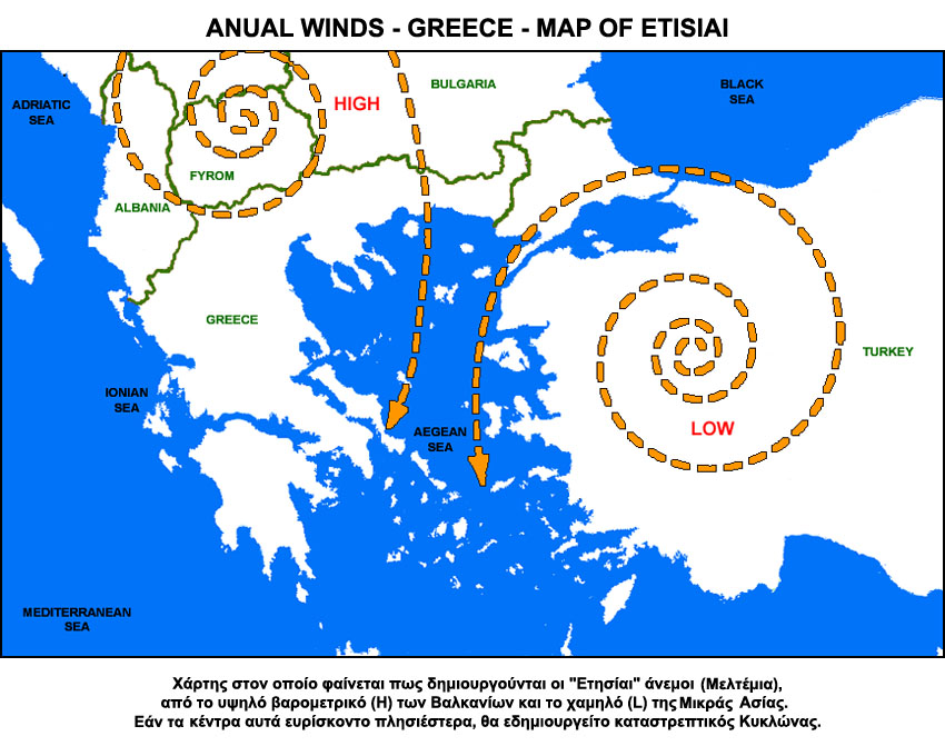 Annual winds in Aegean Sea (Greece)